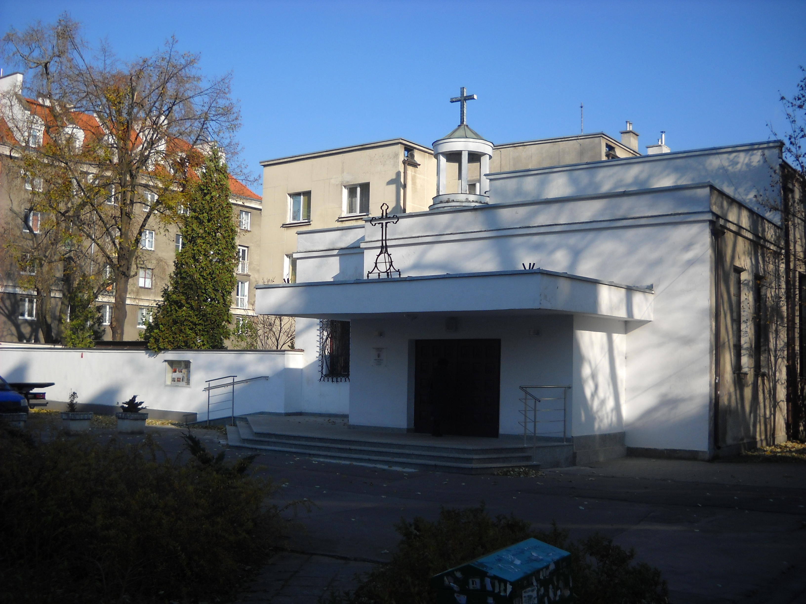 Carmelite Convent, Racławicka Street, Warsaw